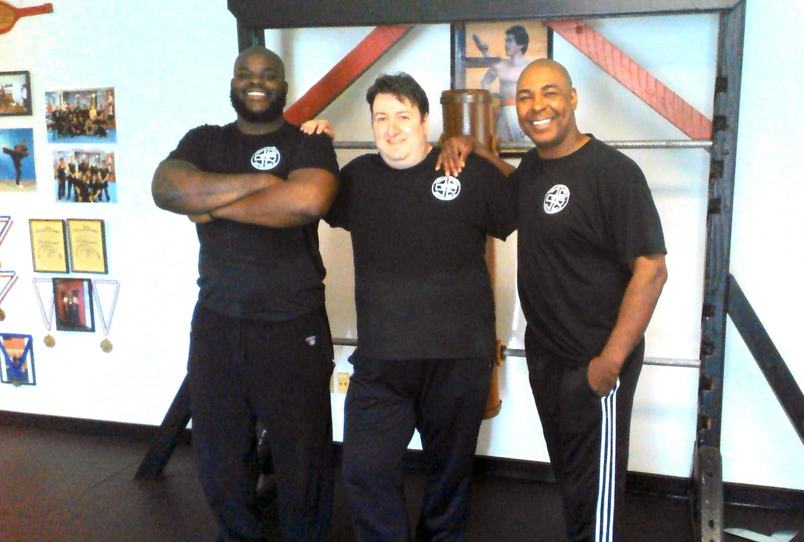 Corvey Irvin training with Maurice Novoa Ruiz under Master Anthony Arnett in Jacksonville Florida 2013